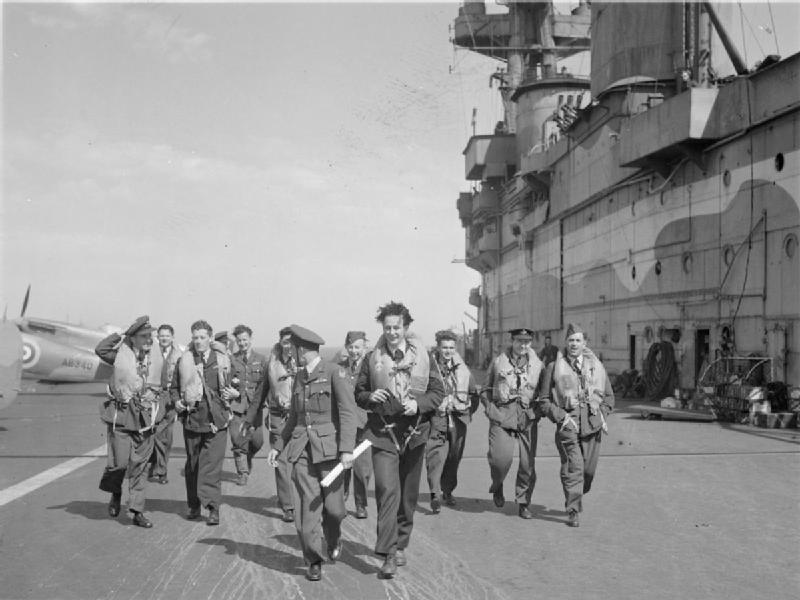 Royal Air Force- Malta and the Mediterranean, 1940-1943. Operation PICKET I: RAF pilots walk towards their aircraft on the flight deck of HMS EAGLE after receiving their final instructions, before flying a reinforcement of nine Supermarine Spitfires to Ta Kali, Malta.